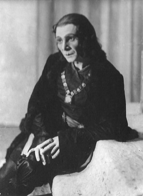 Sharifzade as Hamlet